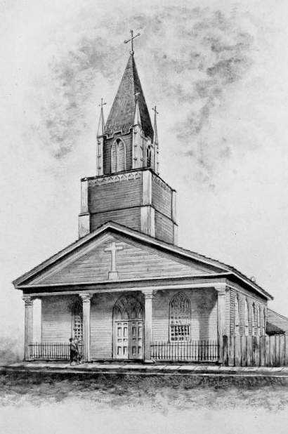 Architectural illustration of St. Mary's church, on the Flats. The first Roman Catholic church built in Cleveland, Ohio.